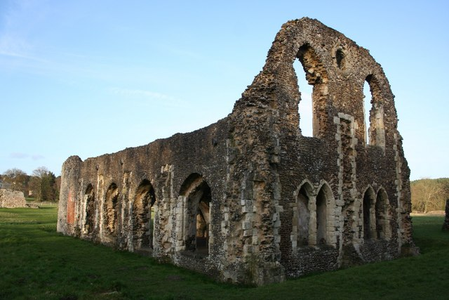 Waverley Abbey ruins